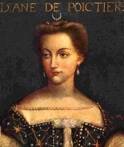 Diane de Poitiers, who was a fixture at the courts of several French kings, and became notorious as the mistress of King Henri II.